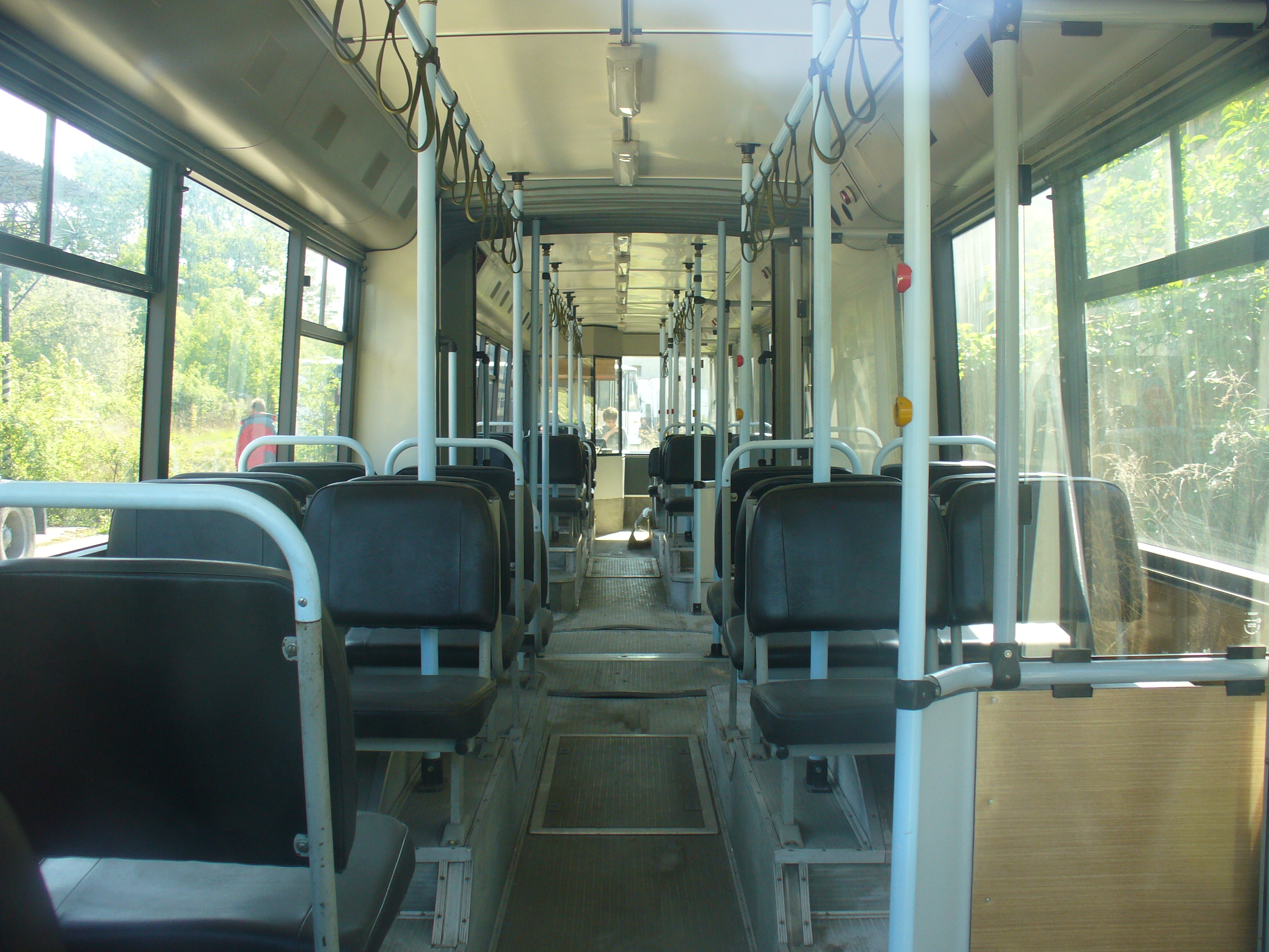 Interior of low floor articulated trolleybus Škoda 22TrG in the depository of the Technical Museum in Brno (april 2009), Czech Republic